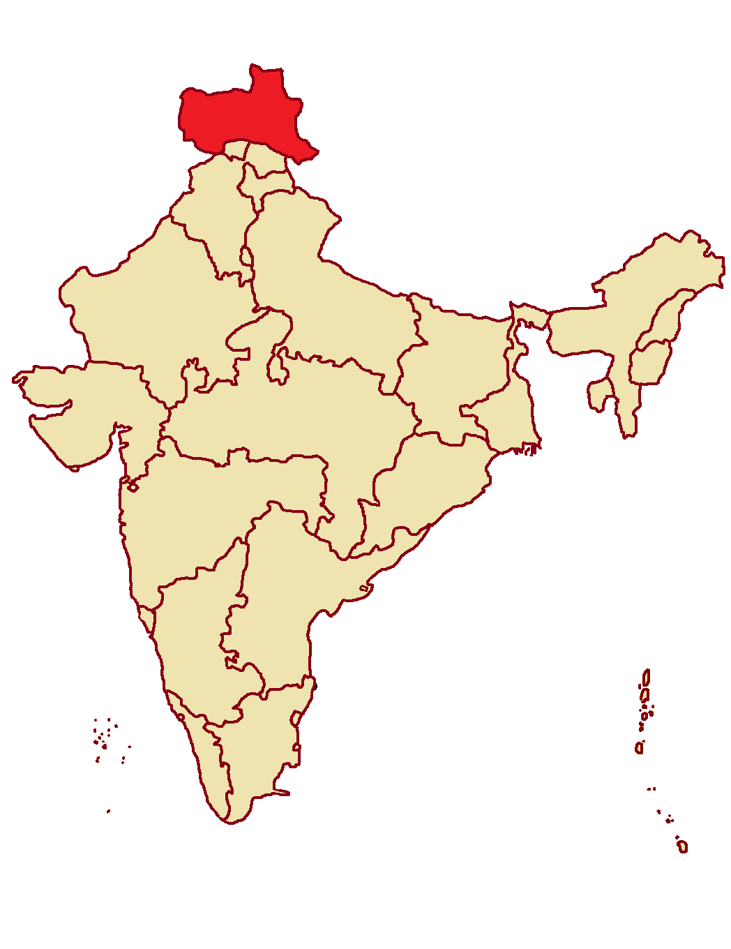 States and Union Territories of India, as of 1964-1965, i.e. between the creation of the state of Nagaland in 1963 and the Punjab Reorganization Act, 1966. Map does not include territories claimed by India but controlled by other countries. Borders not necessarily to scale. Based on File:States_of_India_(1964).png